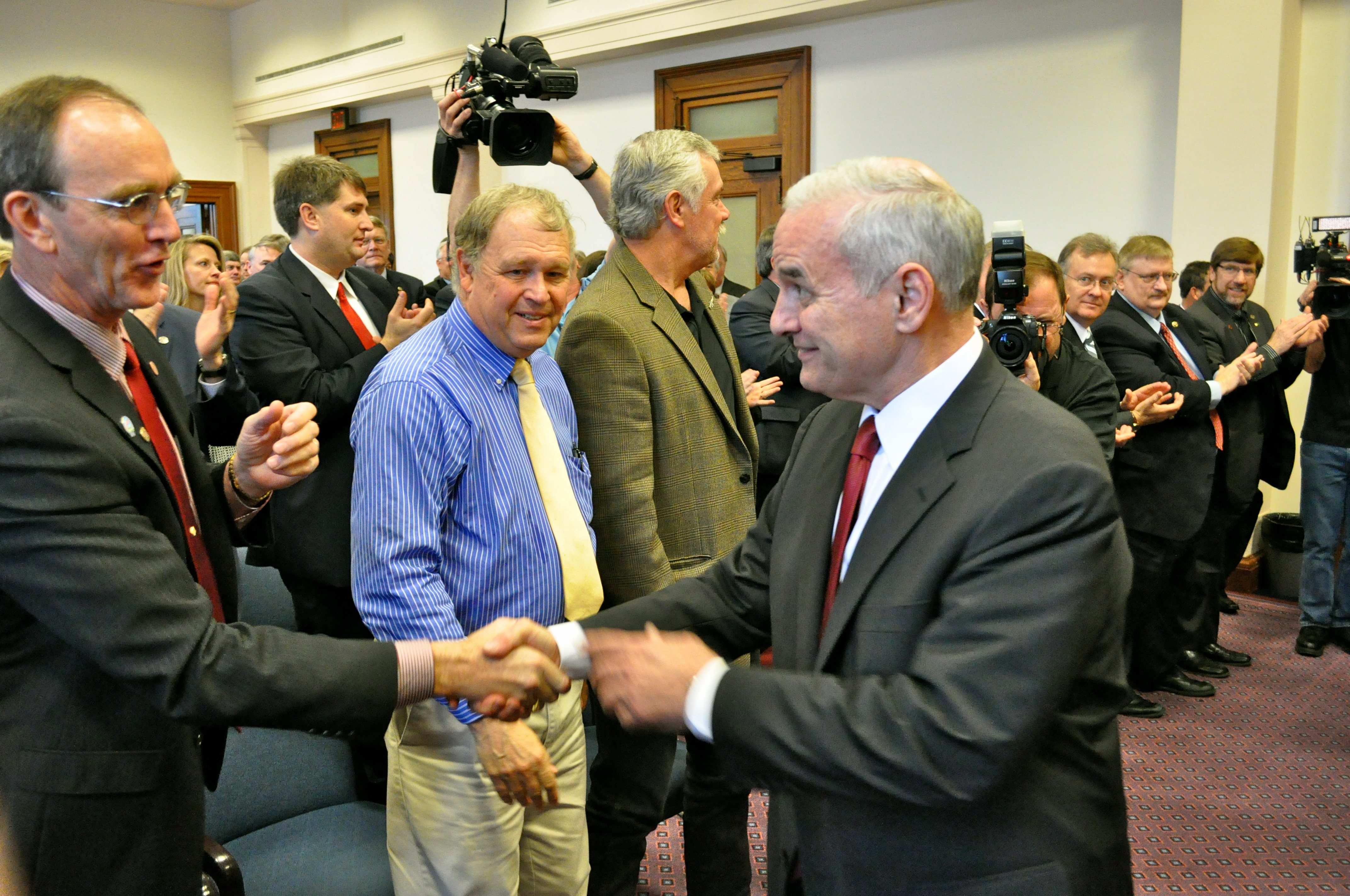 Minnesota Democratic-Farmer-Labor Governor Mark Dayton attending a joint meeting of the Republican House and Senate Caucuses of the State Legislature.